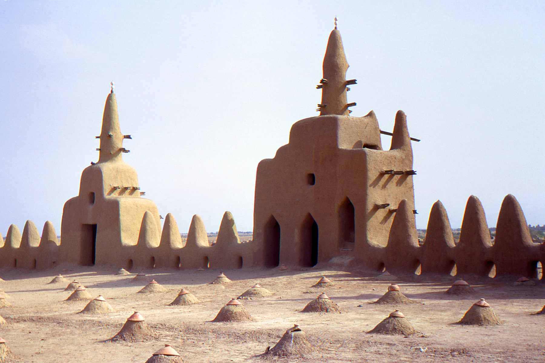 Great Mosque, Djenne, Mali. The roof of the Grand Mosque and its vents. Capture Date 1972/27/12.